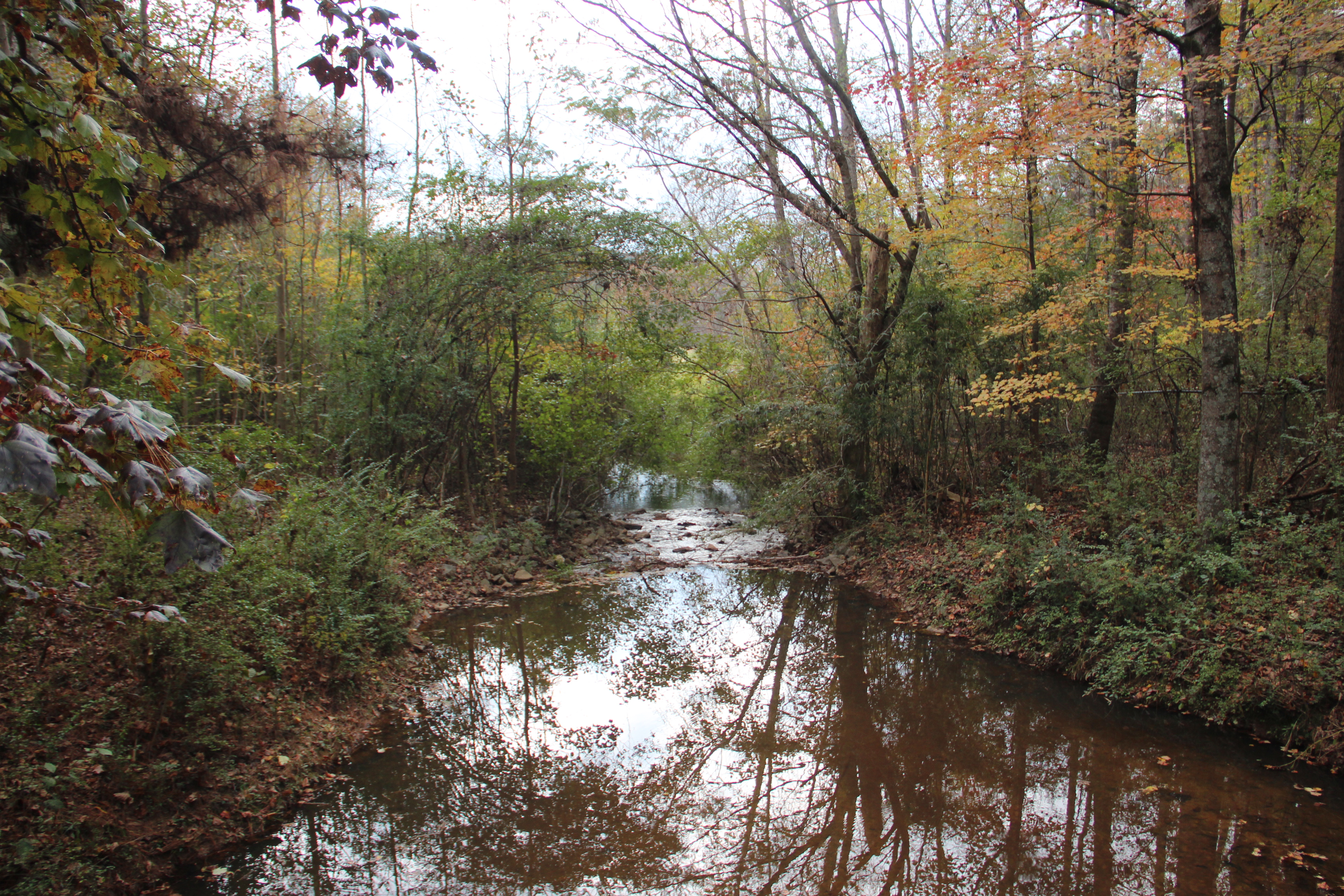 Johns Creek (Chattahoochee River) at Findley Road